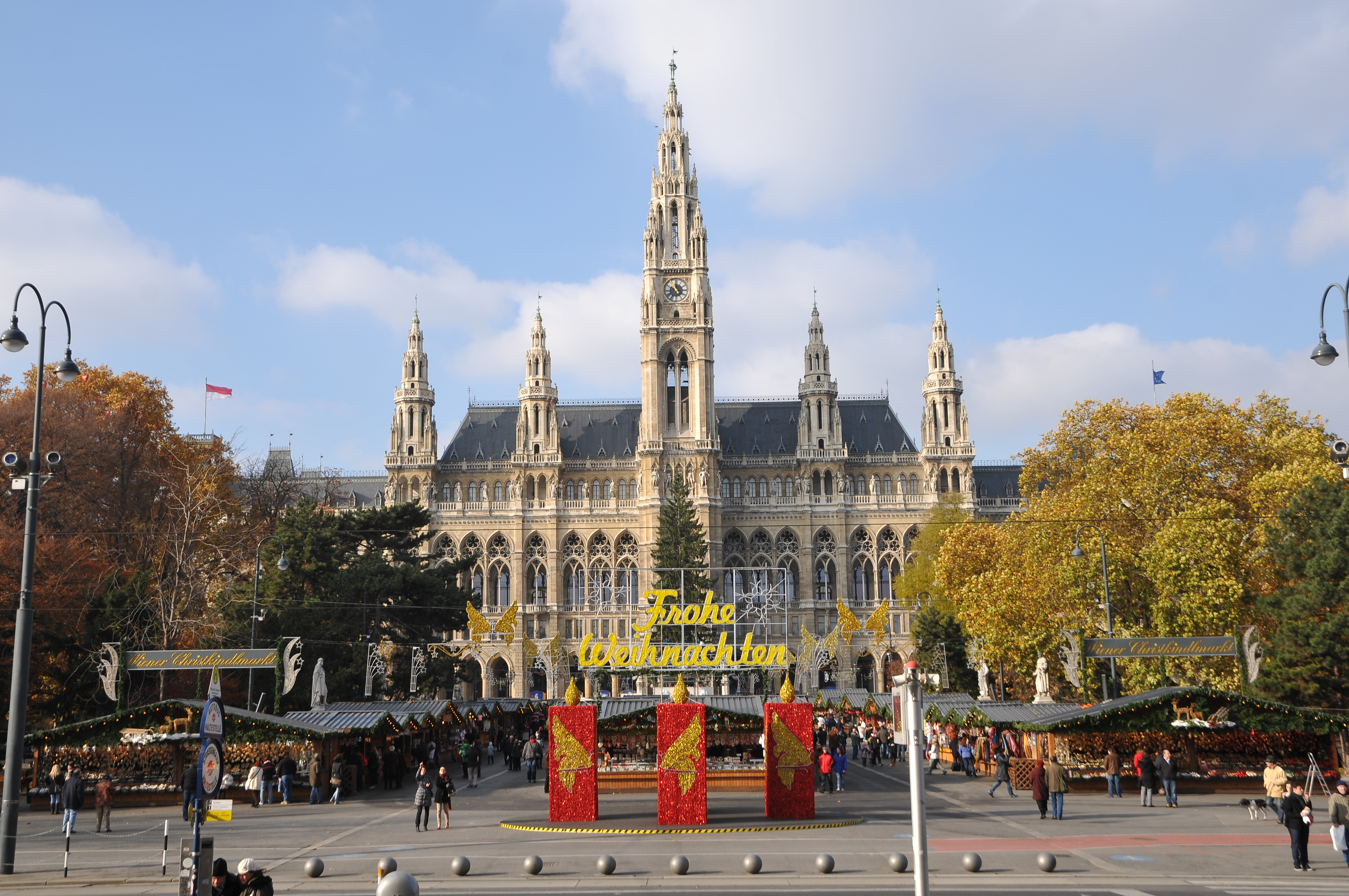 christkindlmarkt (advent market) in front of the town hall of Vienna.